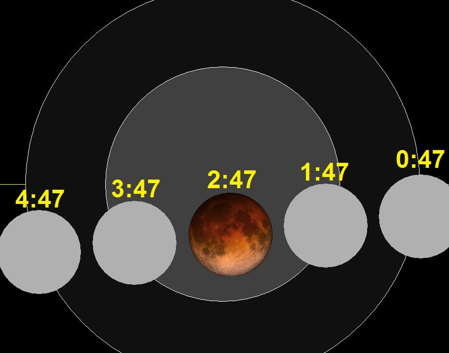 September 2015 lunar eclipse chart of moon's path through the earth's shadow. thumb